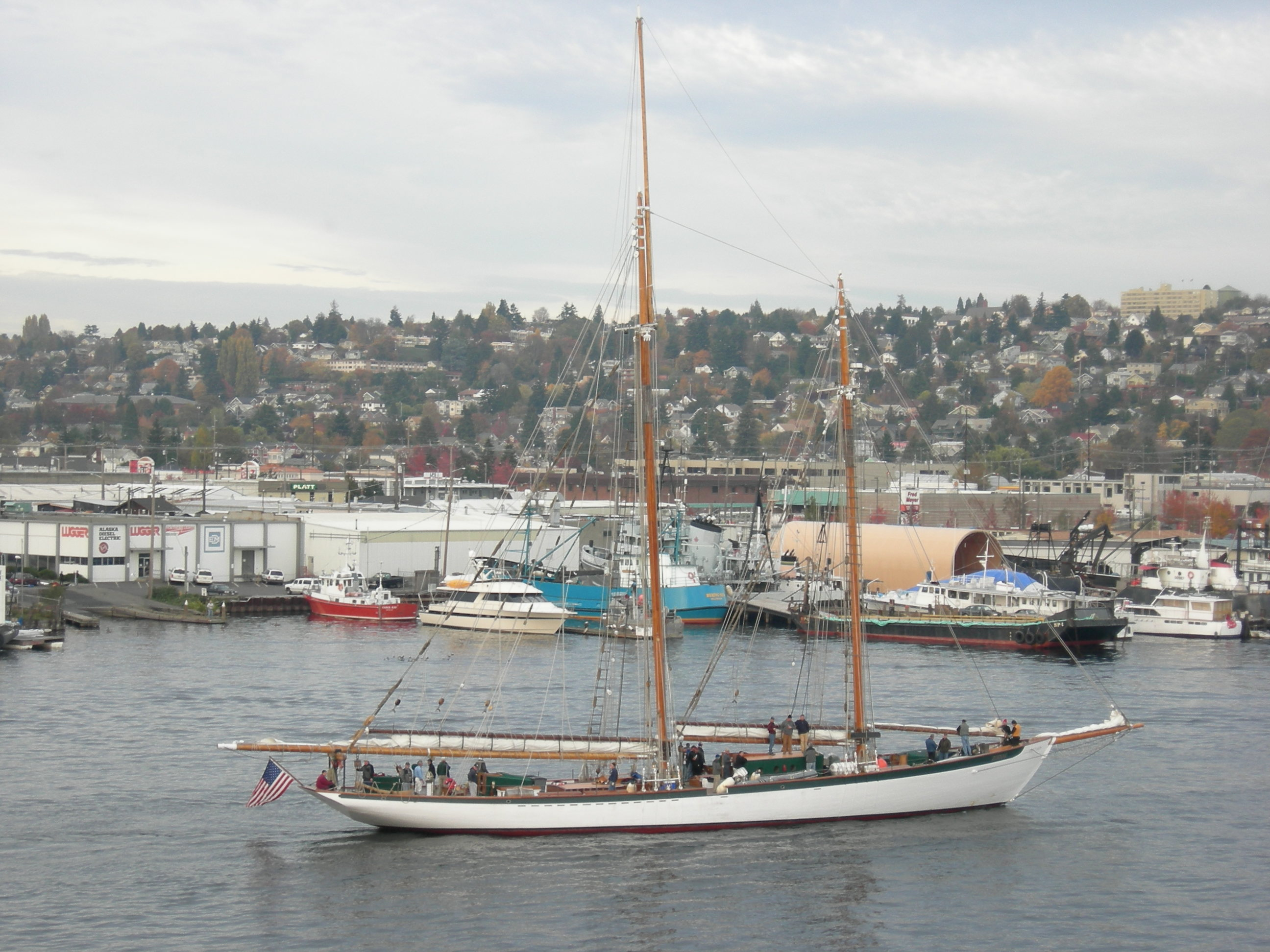 The two-masted schooner Zodiac, built 1924, was the last working pilot schooner in the United States. Now owned by the Northwest Schooner Society, this picture shows it motoring east along the Lake Washington Ship Canal, just east of the Ballard Bridge (from which this picture was taken), Seattle, Washington, USA. The Zodiac is listed on the National Register of Historic Places (NRHP), ID #82004248.